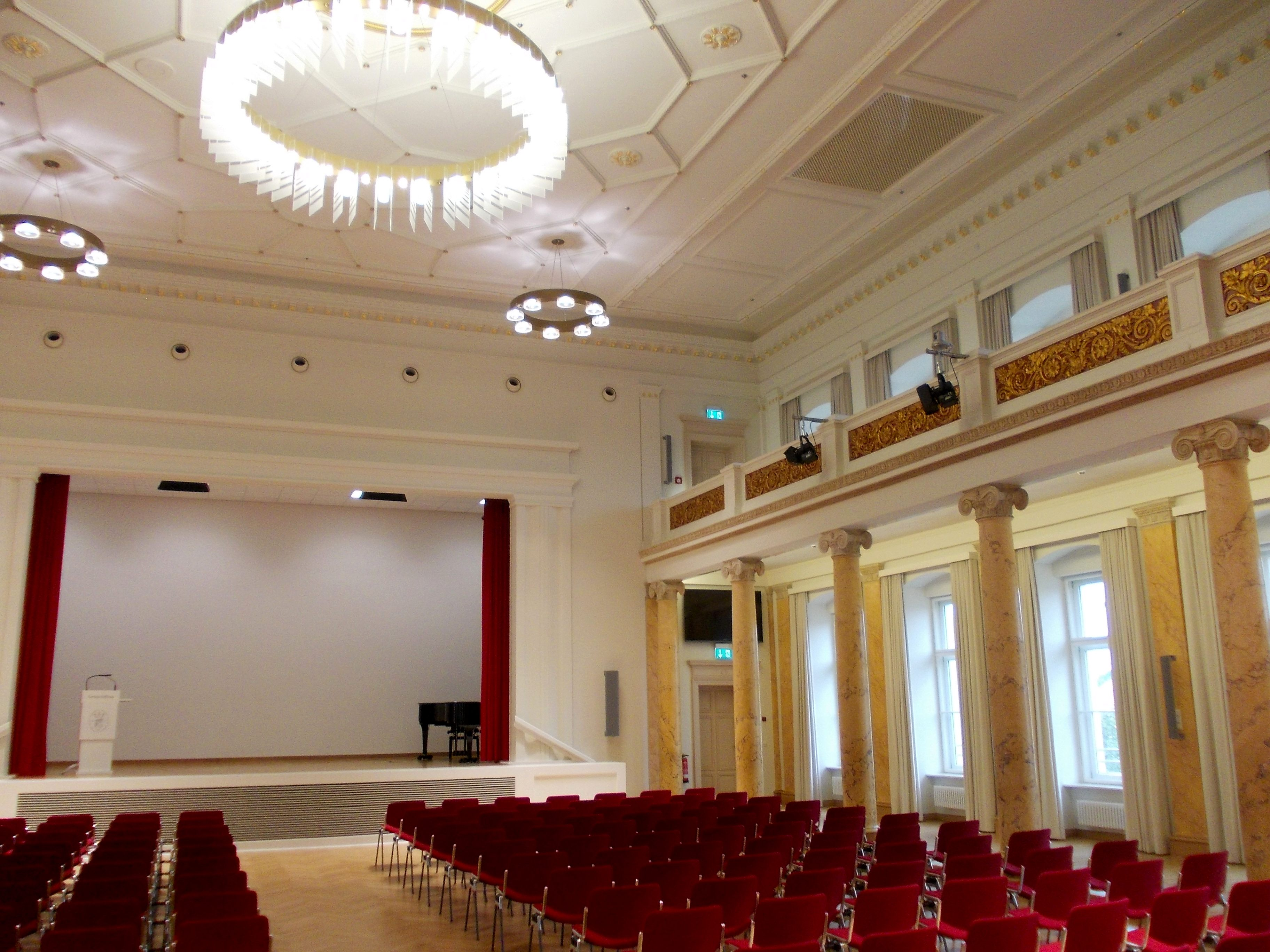 Headquarters of the German Academy of Sciences Leopoldina in Halle/Saale (Saxony-Anhalt), formerly the bulding of the Freemasons' lodge The Three Swords, banquet hall